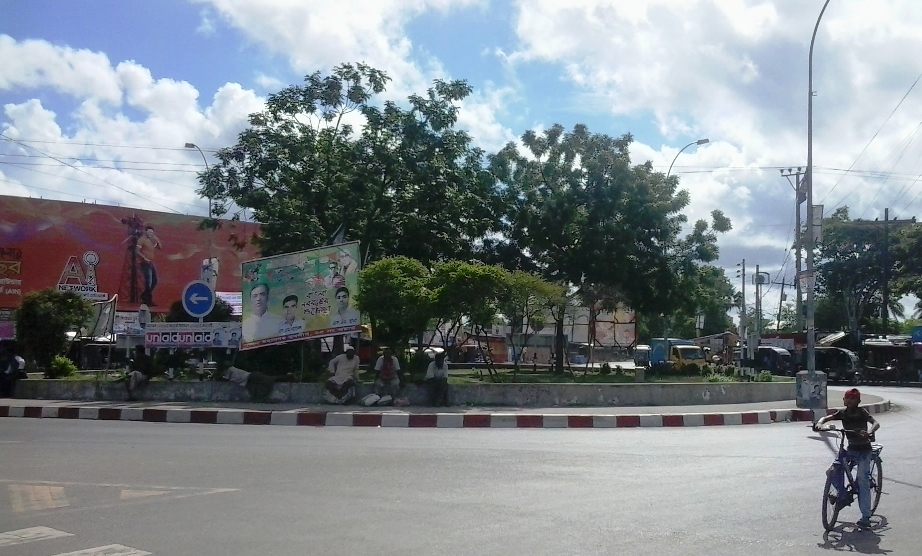 Zero point, khulna